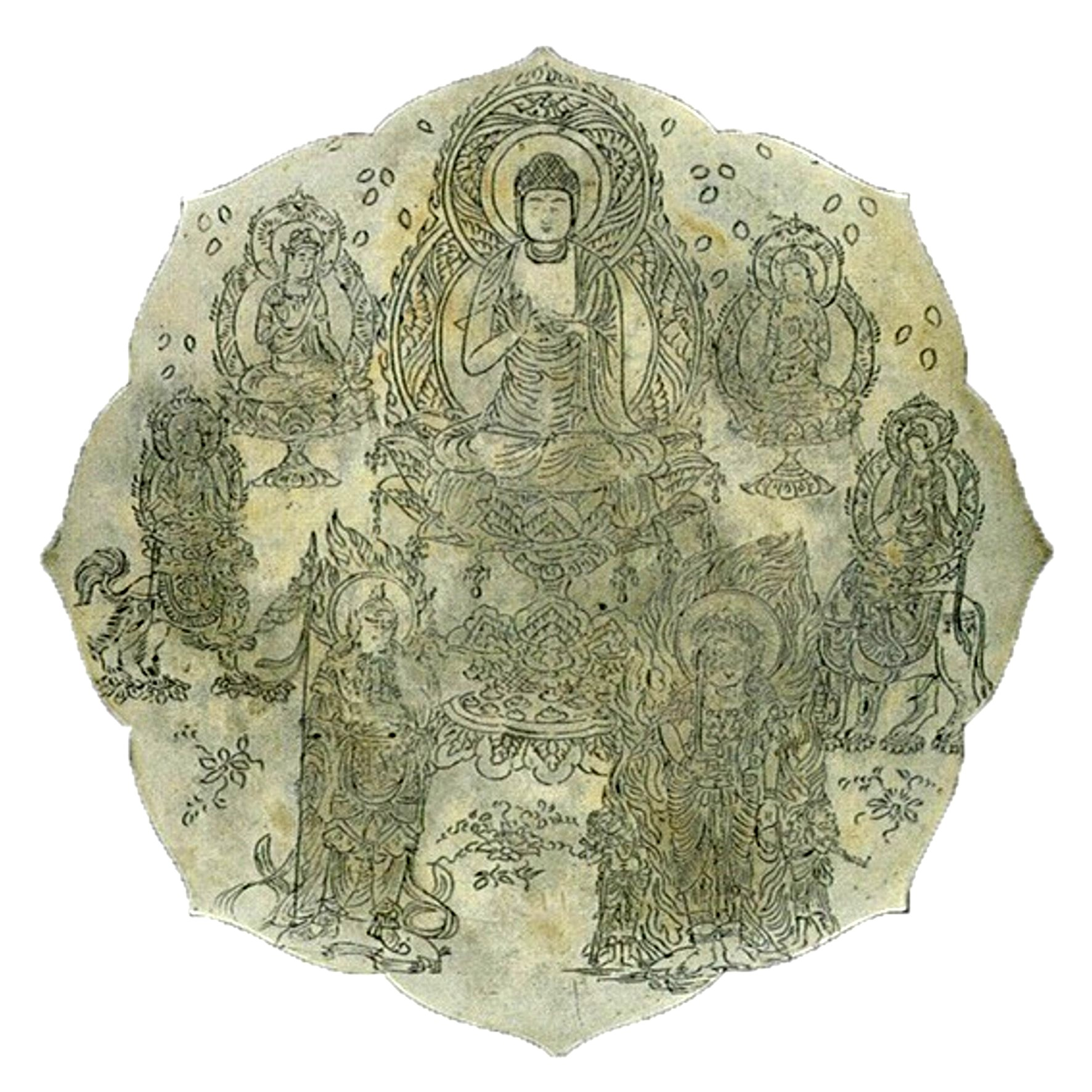 Back of an old mirror